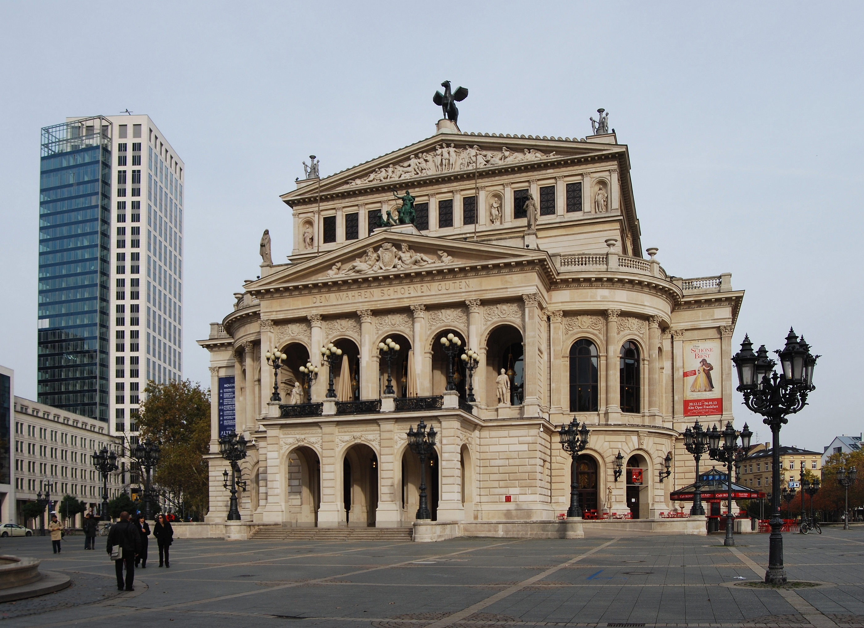 Alte Oper in Frankfurt am Main, Hesse.